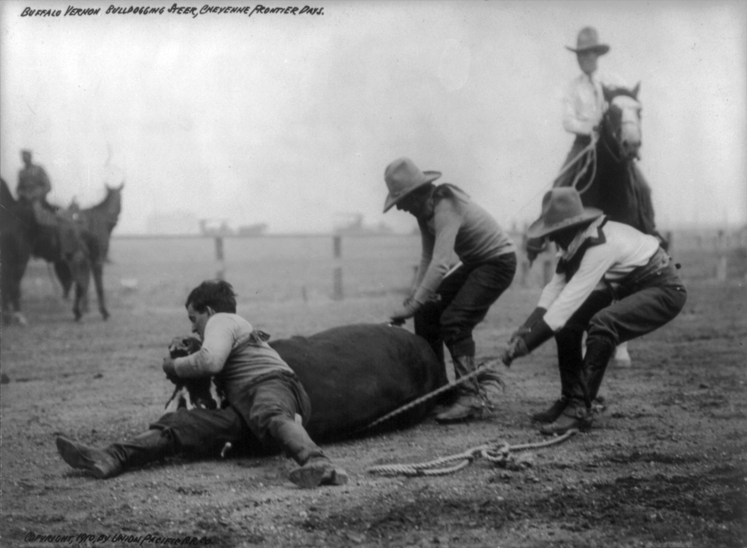 Buffalo Vernon (left) bulldogging a steer, Cheyenne Frontier Days